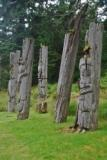 Taken at SGaang Gwaii, 2007